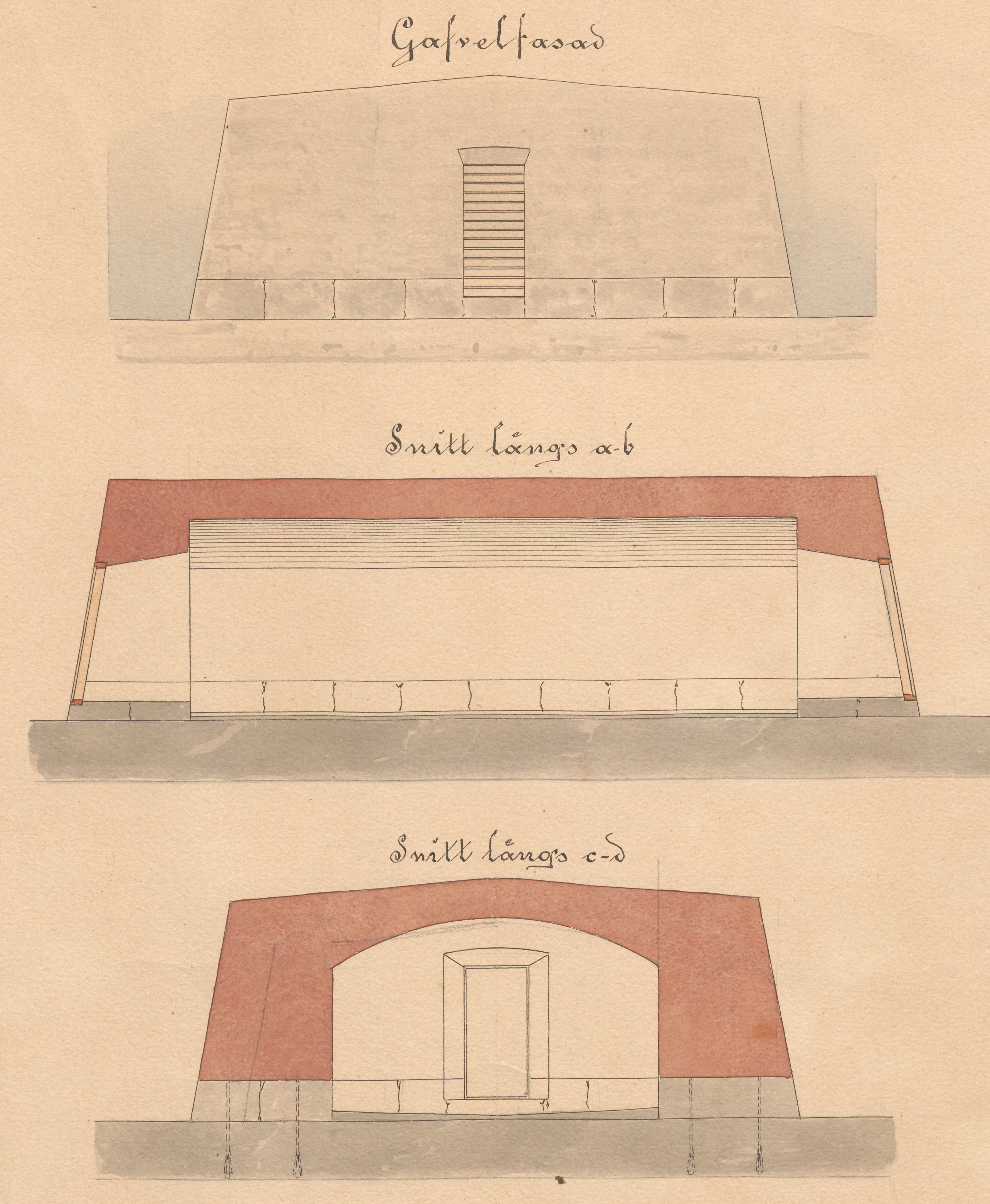 Drawing of a storage building for the Märket lighthouse in 1889.